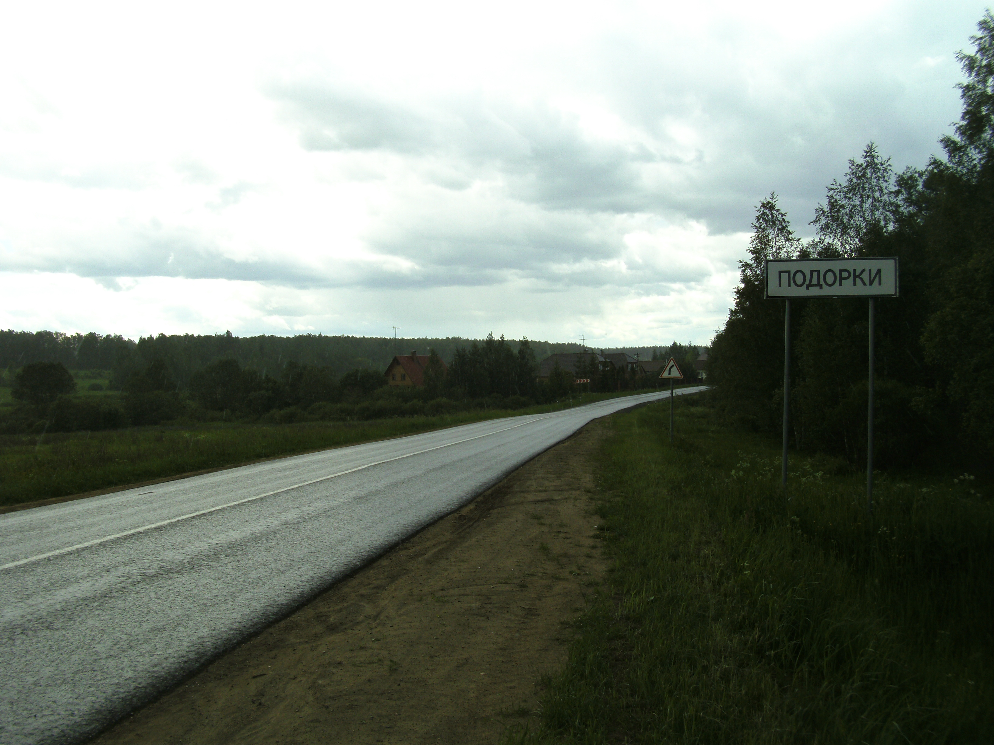 Entering Podorki village from Klin